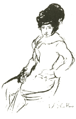 Portrait of the artist and author Florence Scovel Shinn dated to 1899.